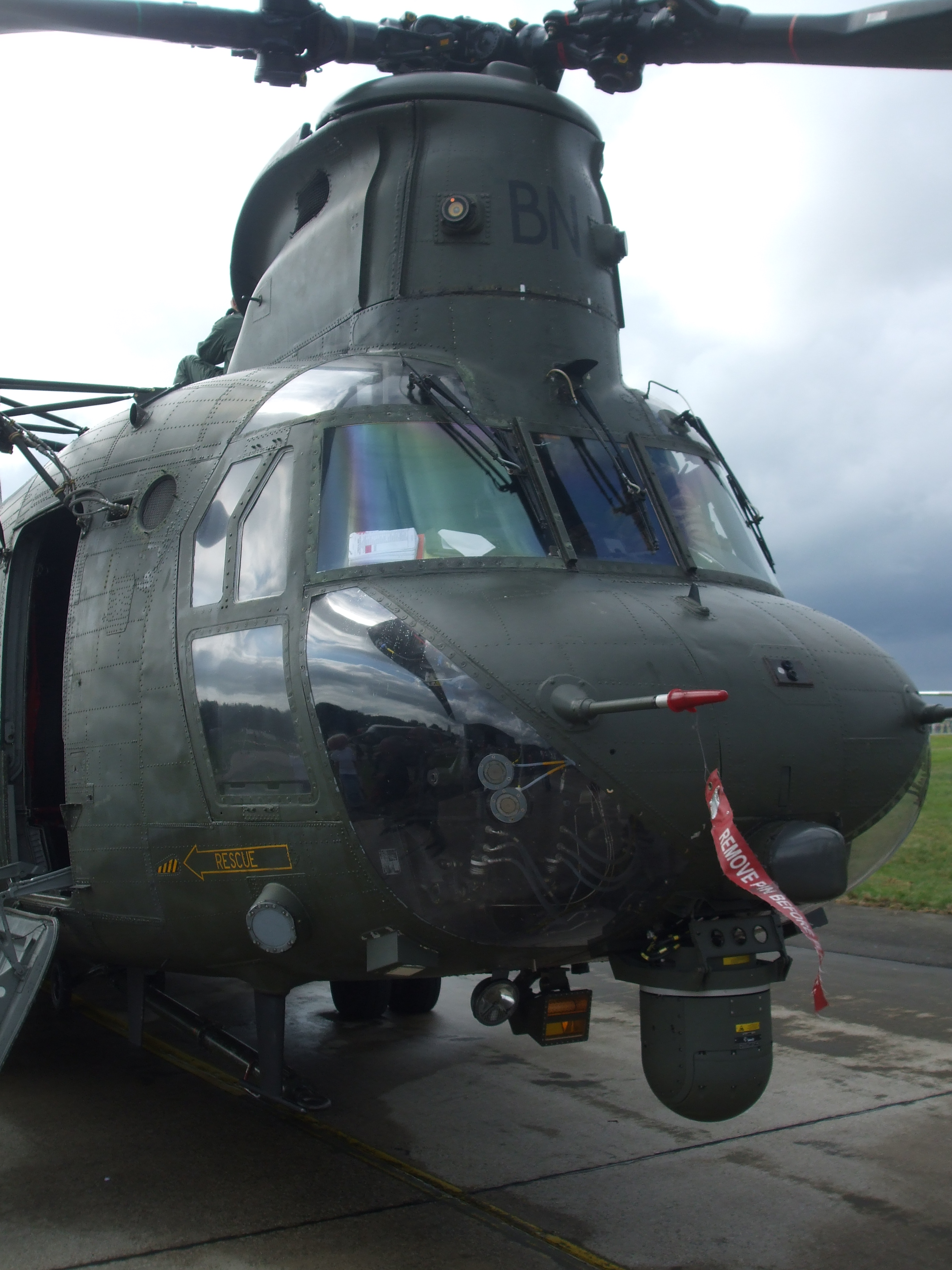 Front view of the British Royal Air Force's most famous helicopter, "Bravo November". When the picture was taken at 100th anniversary airshow of the German Marineflieger at Nordholz Naval Air Station ZA718 was already upgraded to the HC.4 standard.